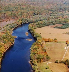 The Middle Delaware River above Walpack Bend. A wide river in a valley of forest and farmland.